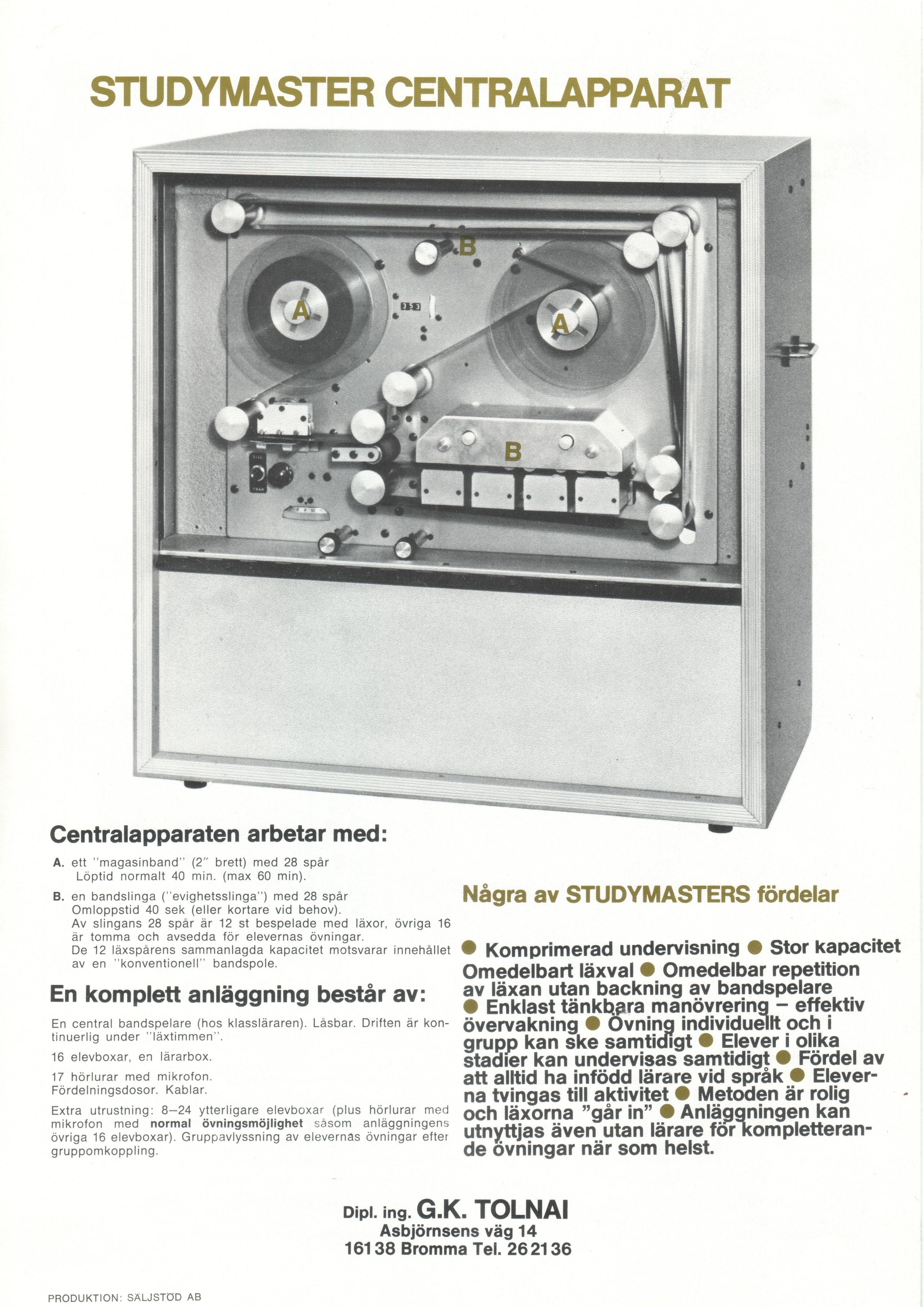 Tolnai Studymaster Centralapparat. The image scanned from a brochure published in the 1960s in Stockholm.